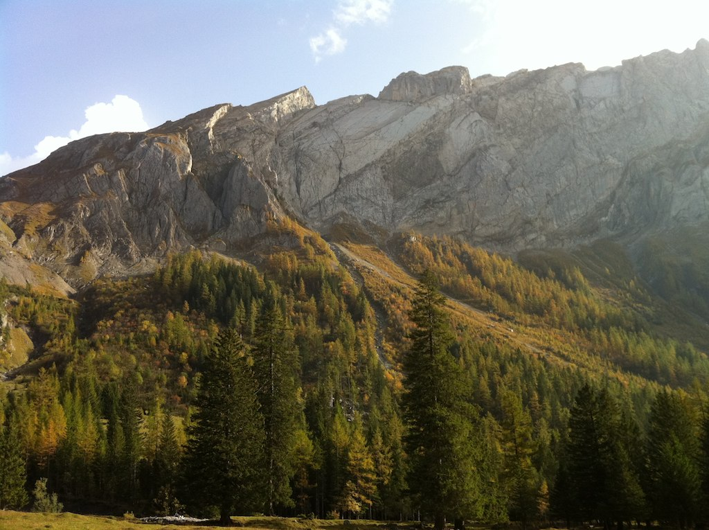 Miroir d'Argentine sur la commune de Bex, accessible depuis La Barboleusaz (Gryon), VD, Switzerland